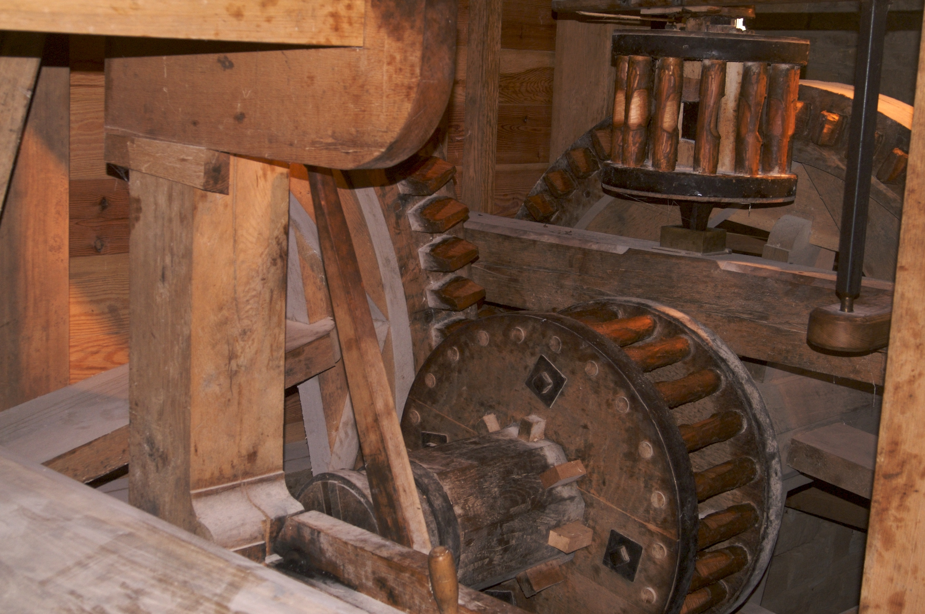 Gears for transmitting power from the water wheel to the grind stones, in George Washington's Grist Mill, Mt Vernon, VA.